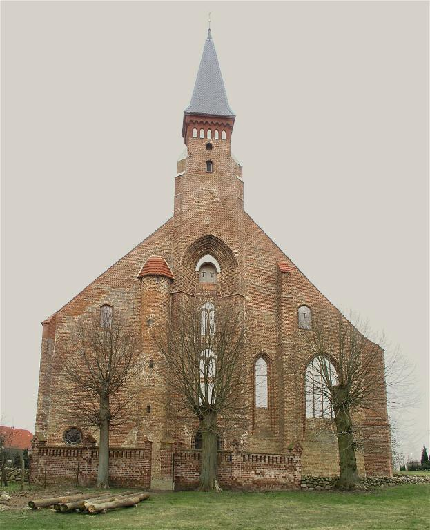 Tempzin, Mecklenburg, Germany: monastery church, photo 2007